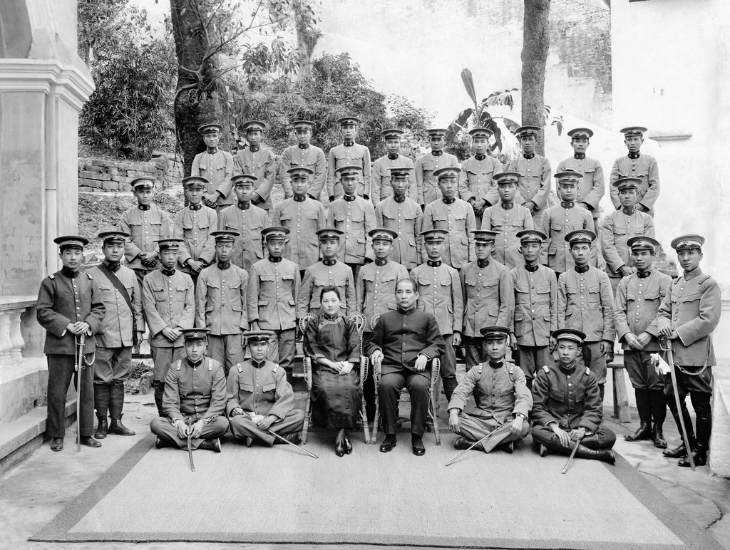 Sun Yat-sen and Soong Ching-ling were with officers in Guangzhou. Front row(sitter): Ye Ting(1st right), Xue Yue(1st left), Zhang Fakui(2nd left)